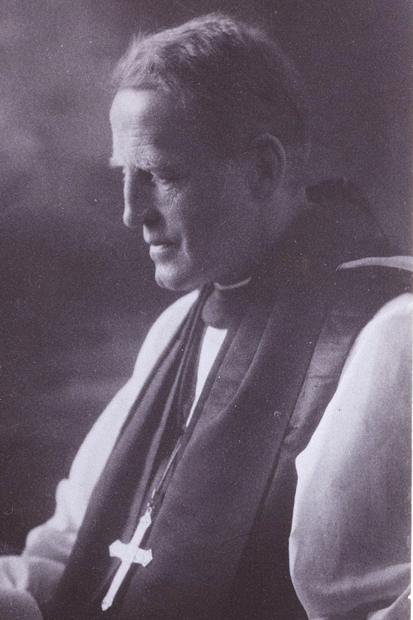 The Right Reverend Arthur Karney